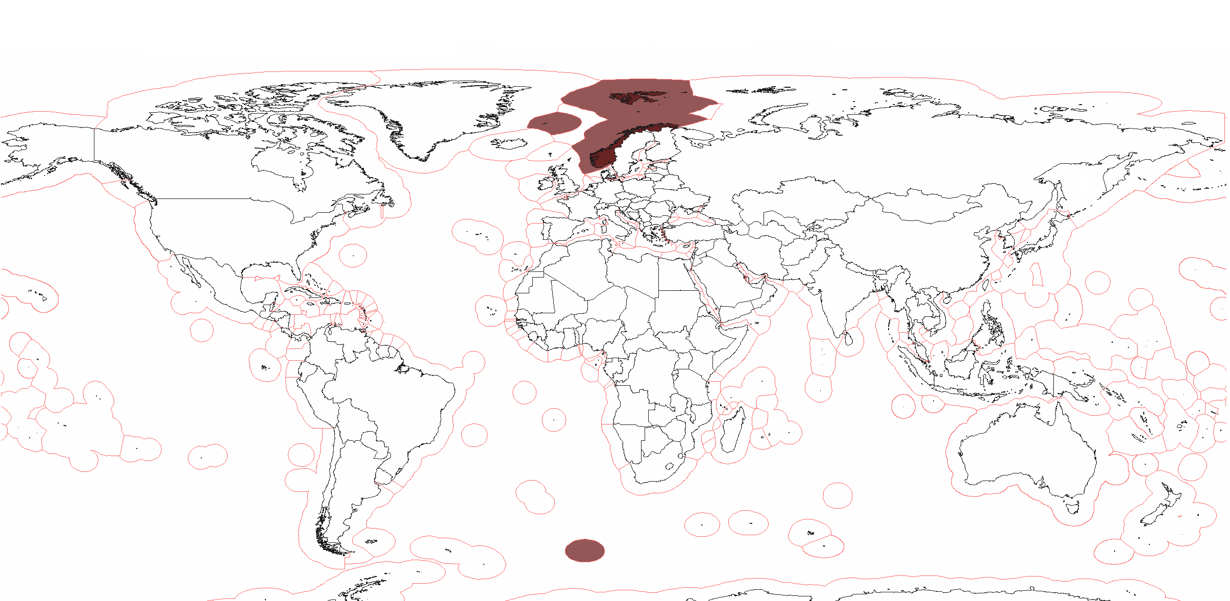 Norway's Exclusive Economic Zones